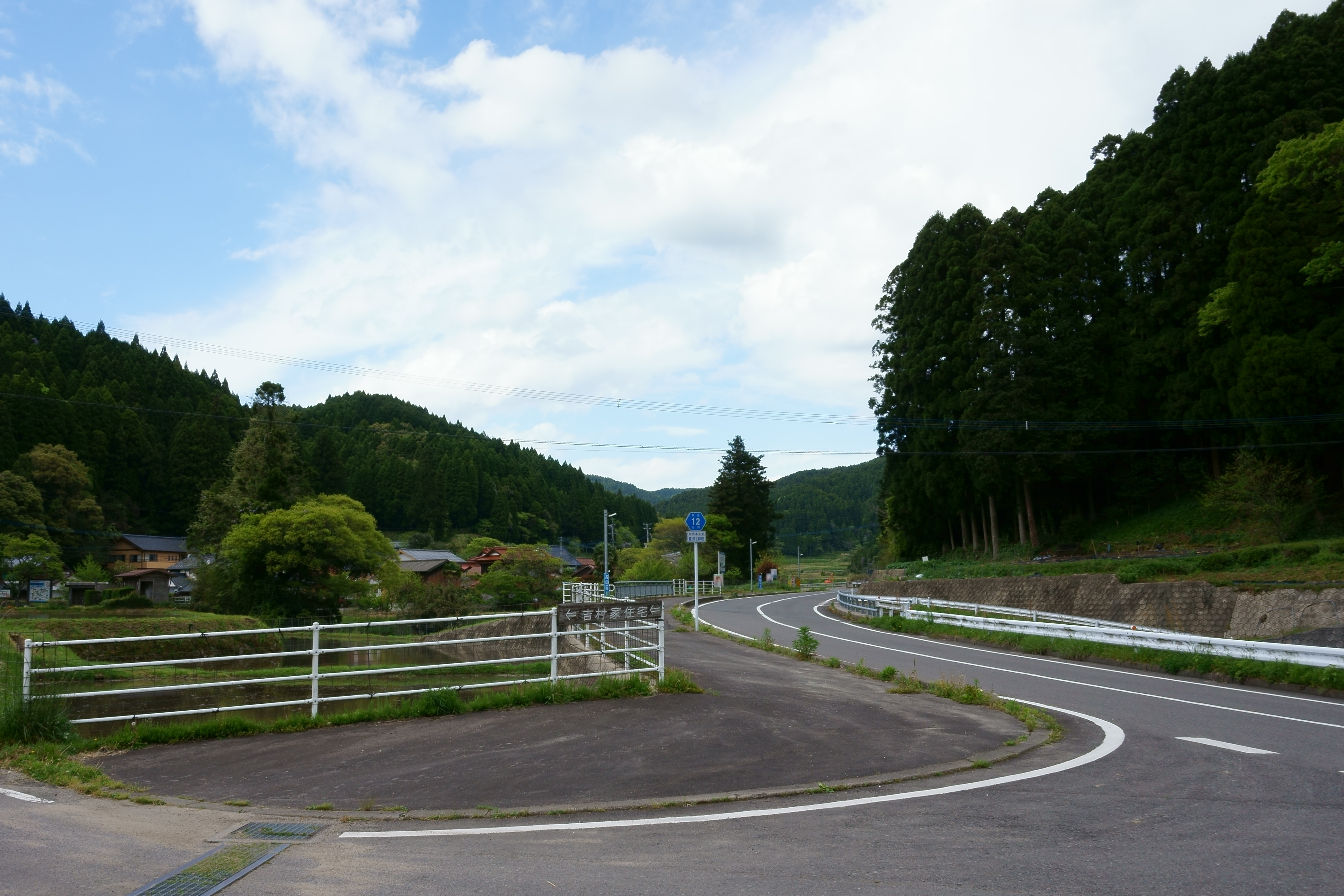 Fukuoka/Saga prefectural road no.12 in Kamimutsuro, Fuji, Saga city, Saga prefecture.